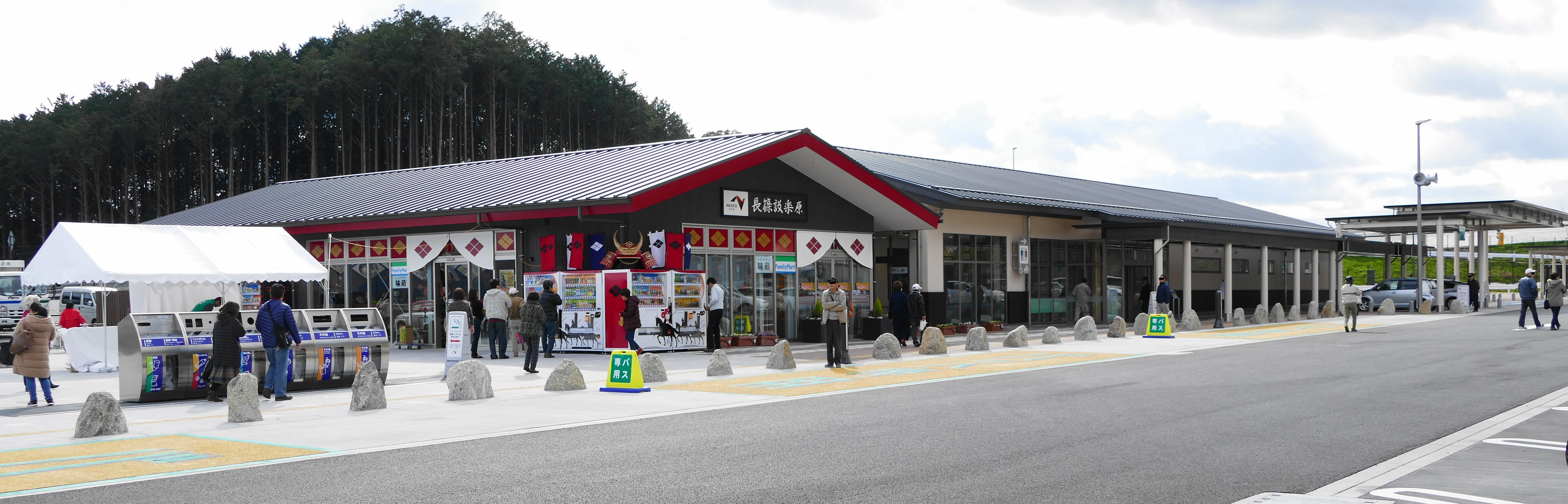 Nagashino-Shitaragahara Paking Area for Tokya,Aichi prefecture,Japan